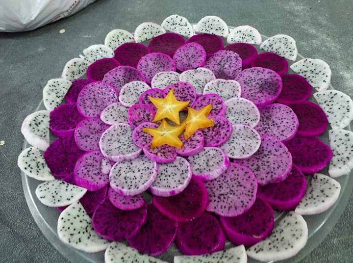 A tray of colorful Pitaya